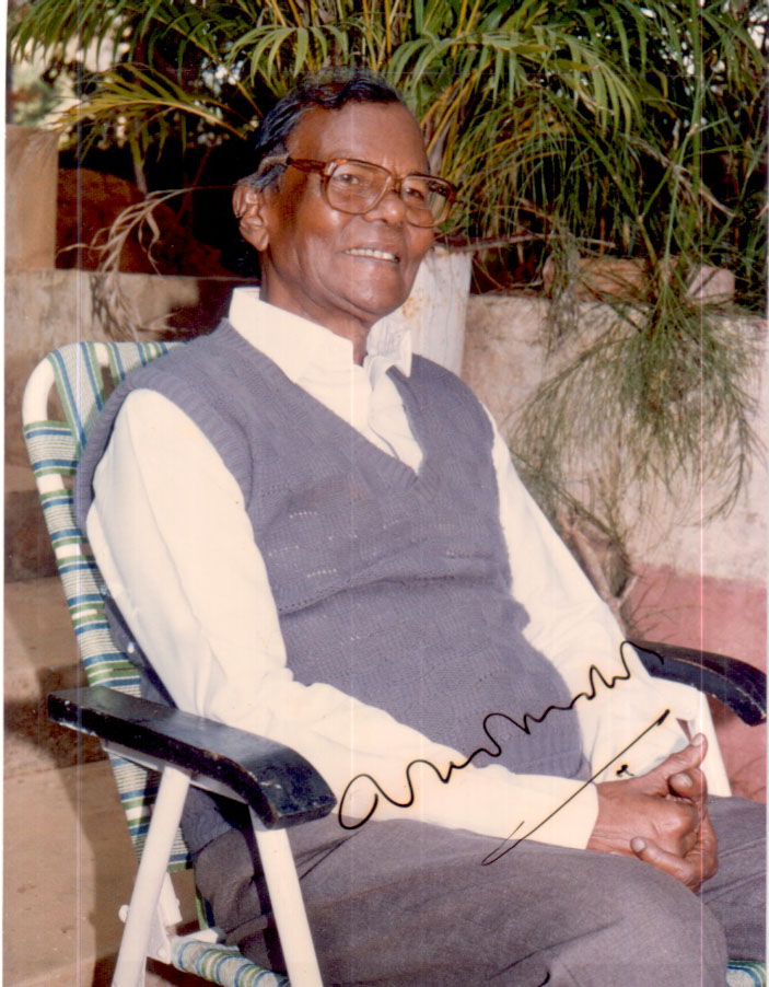 Photographs of Gopinath with wife in 60s and other photographs in USA